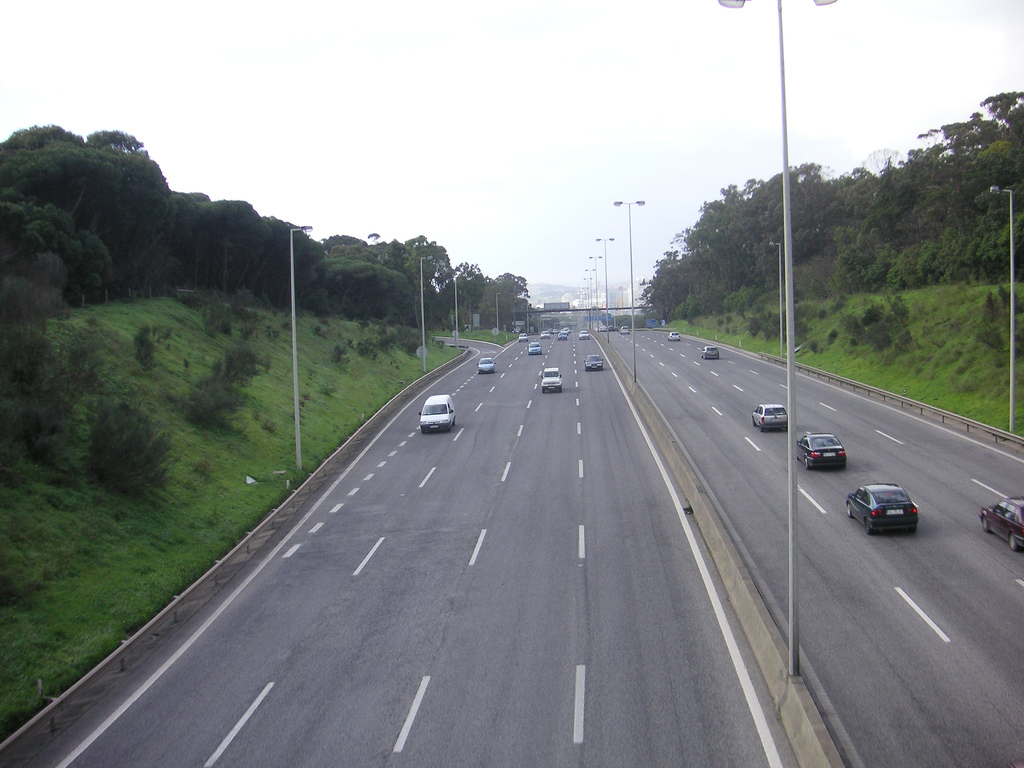 An highway near Lisbon